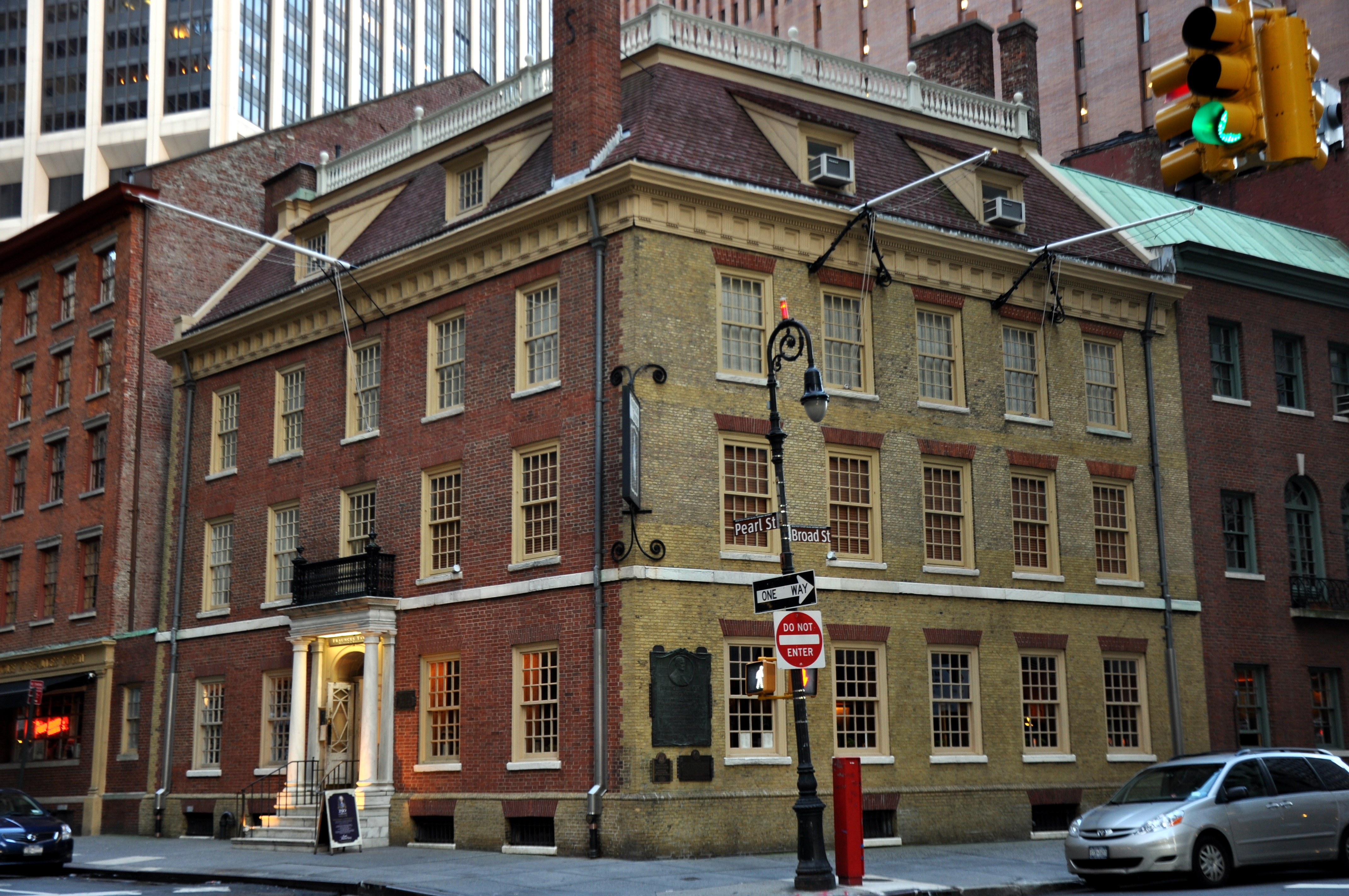 Fraunces Tavern Block